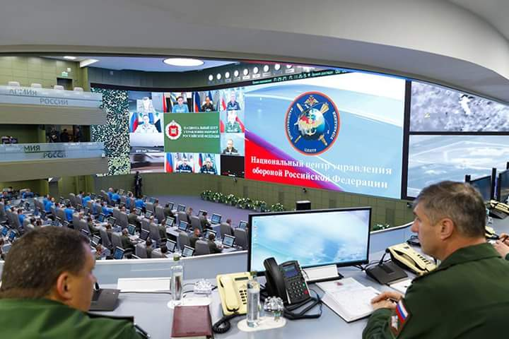 Astra Linux Special Edition at Russian military HQ (specimen